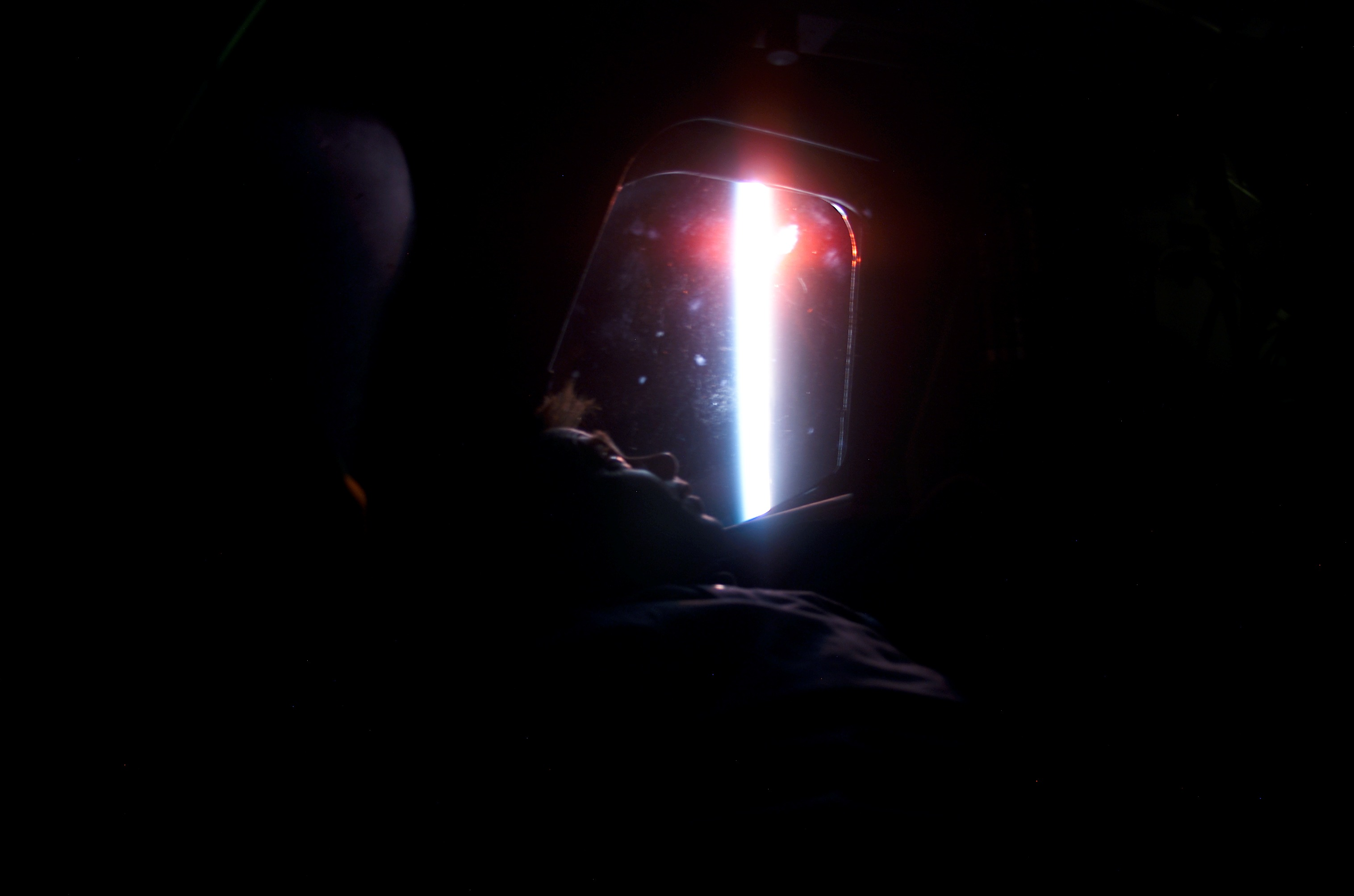 Israeli astronaut Ilan Ramon, photographed aboard the space shuttle Columbia during shuttle mission STS-107. Ramon, along with the rest of the Columbia's crew, was killed when the shuttle broke up during re-entry.